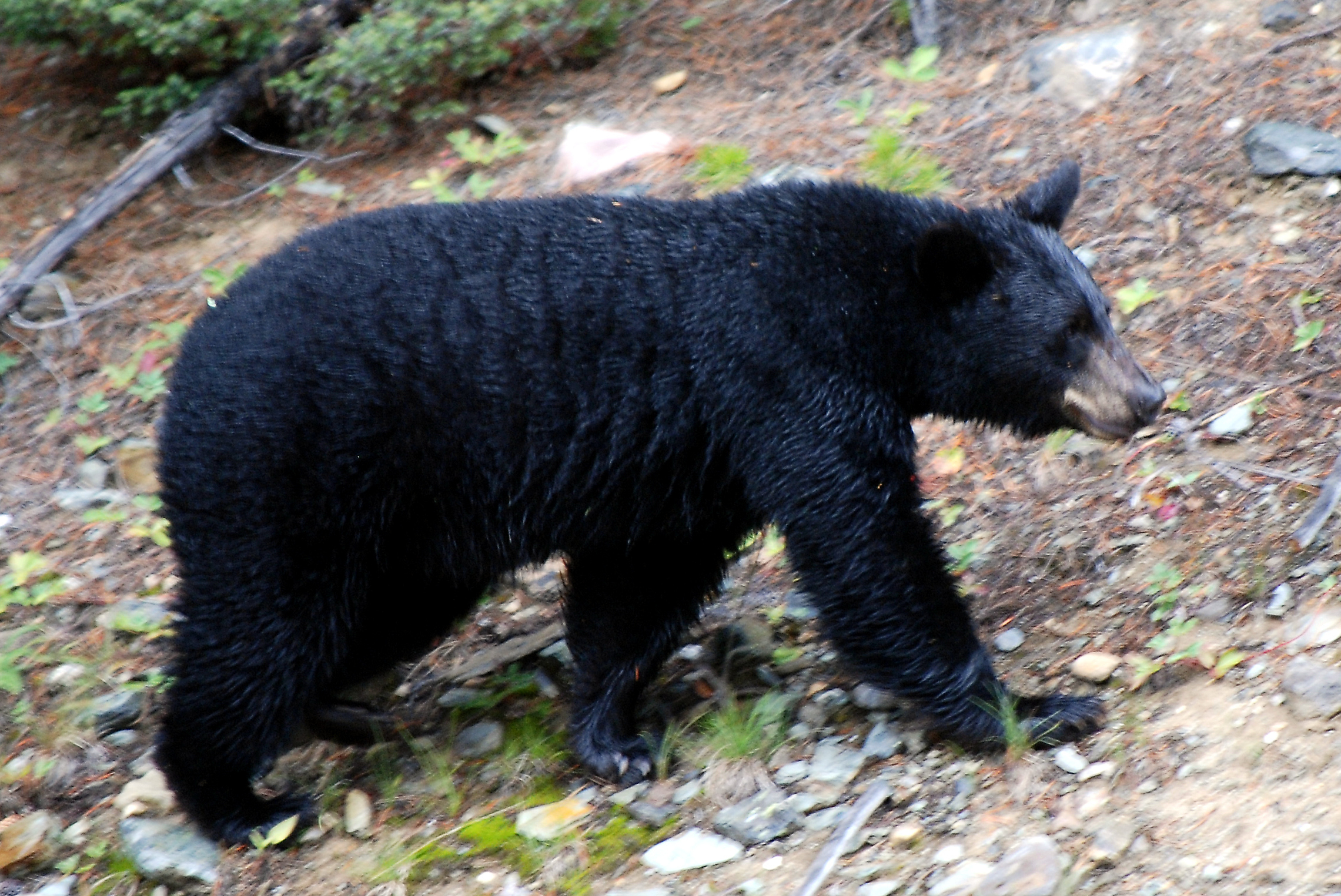 Black bear in the Canadian Rockies